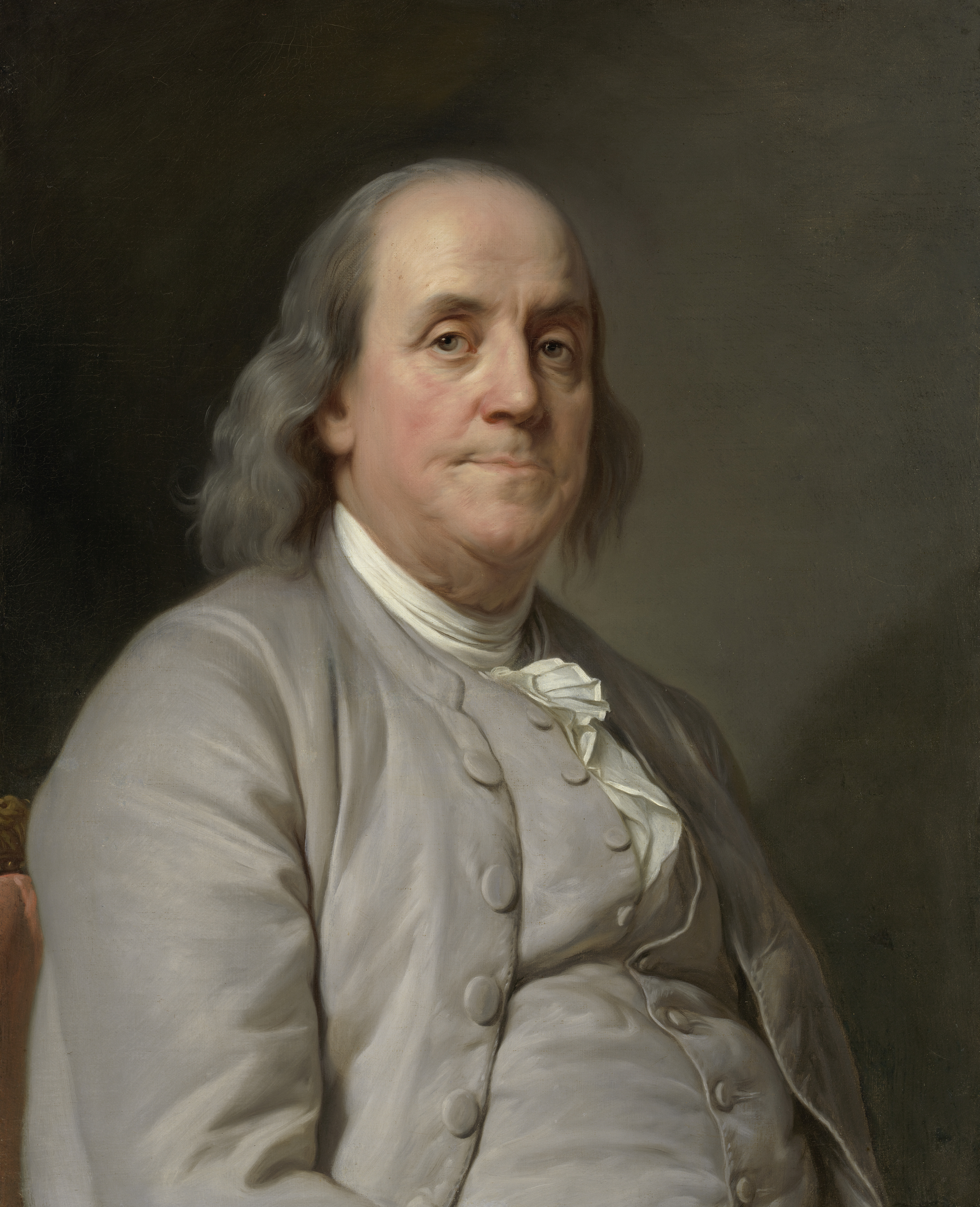 Exhibition Label Benjamin Franklin, in his day the most famous American in the world, was renowned for his scientific accomplishments as much as for his political and diplomatic triumphs. Known as a "natural philosopher," as scientists were termed in the eighteenth century, Franklin was celebrated for his experiments with electricity, but he also conducted experiments in other areas and invented devices as varied as a stove and bifocal eyeglasses. He also reorganized and expanded the American Philosophical Society in Philadelphia and was often the conduit for correspondence between Americans and Europeans who were studying botany, chemistry, physics, and other sciences. By the mid-1780s, when this portrait was created, Franklin was representing the new republic in France, where he was revered for his wit and scientific knowledge.